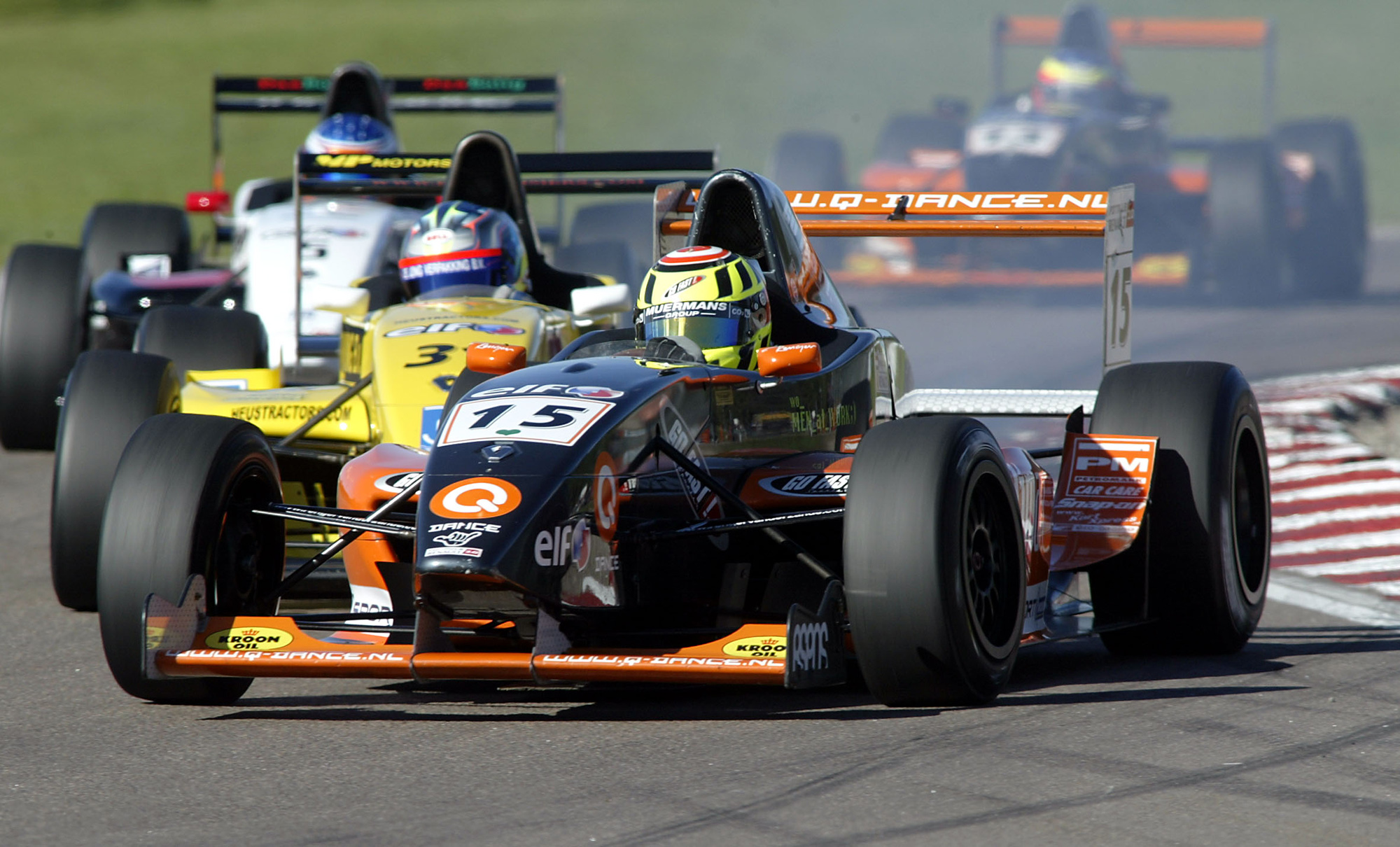 Renger van der Zande in the 2005 Formula Renault series, of which he was the champion.